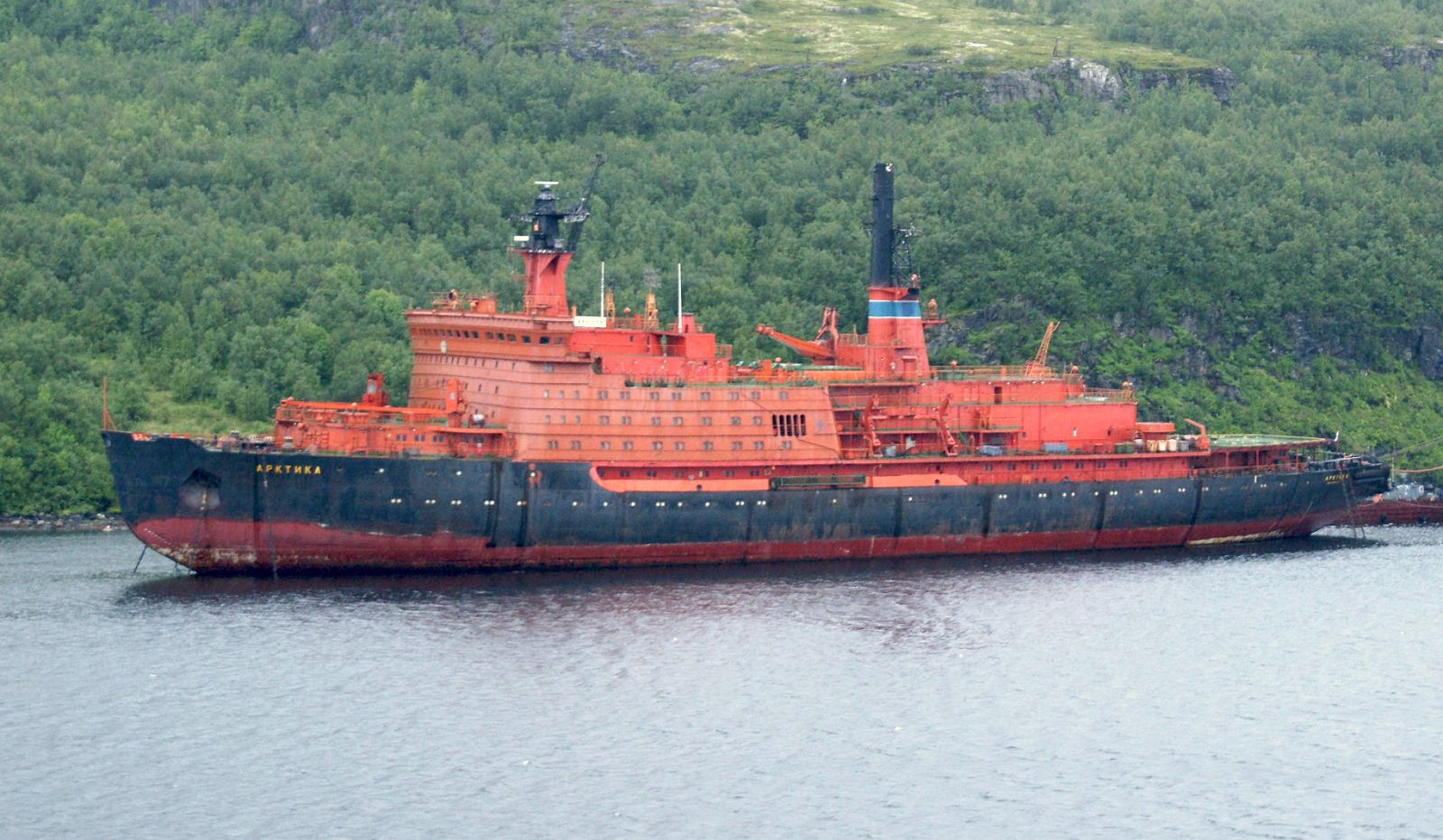 Nuclear i/b "Arctica" in Murmansk (July 2012)